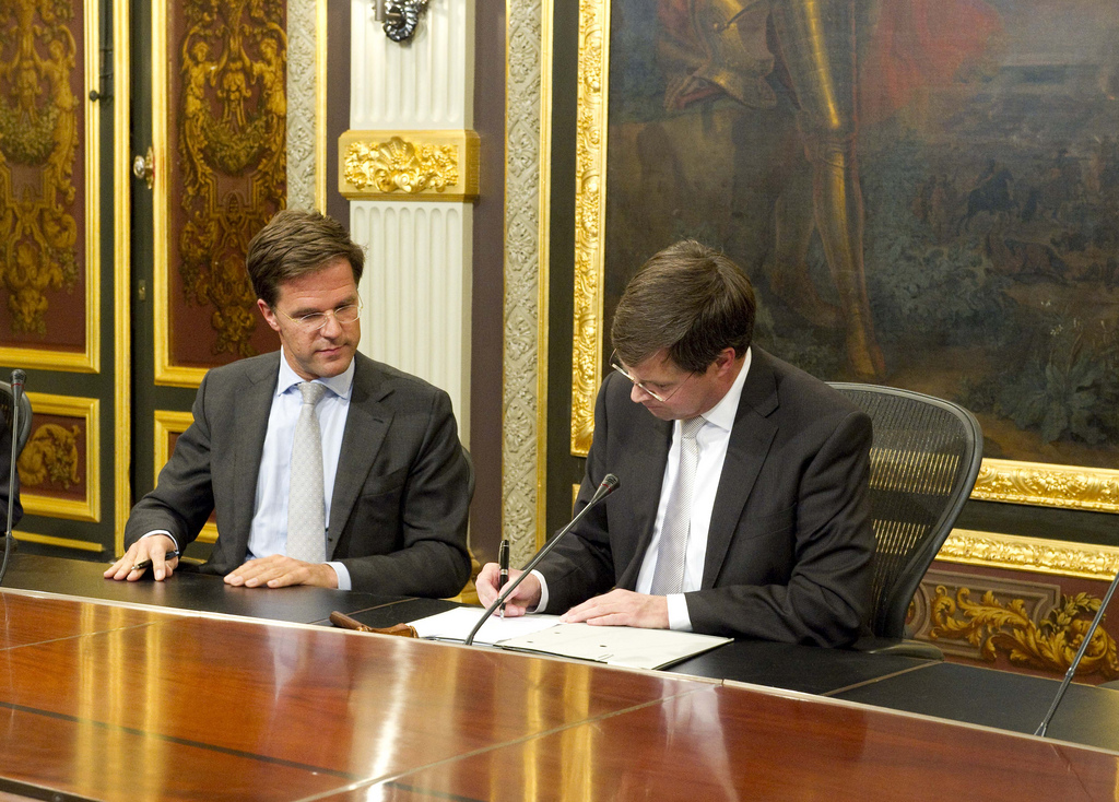 Rutte and Balkenende